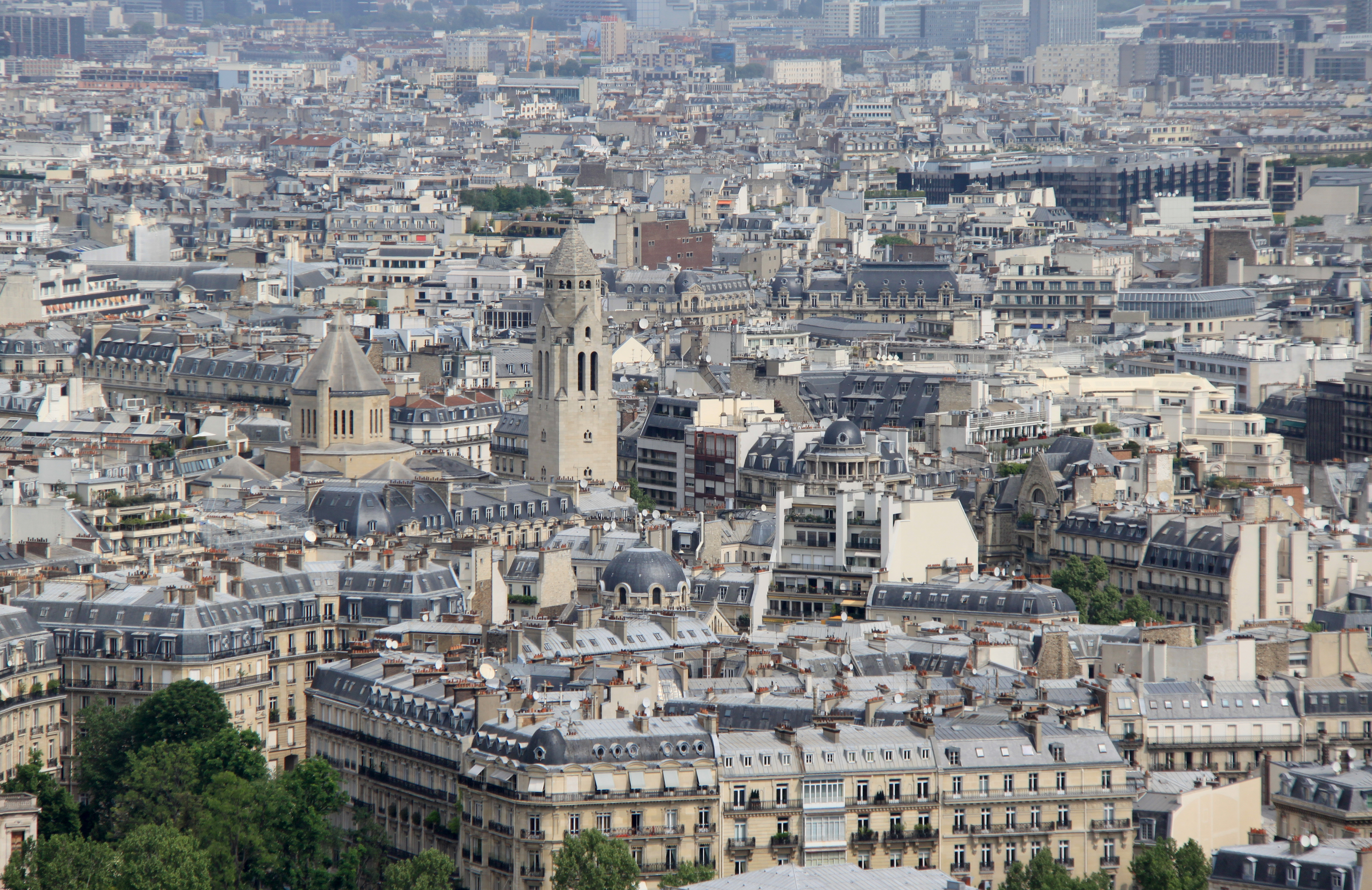 Views from the Eiffel Tower.